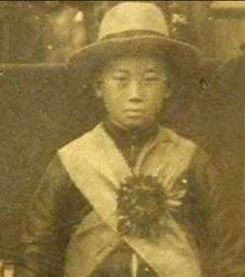 Latest king of the taiping heavenly kingdom